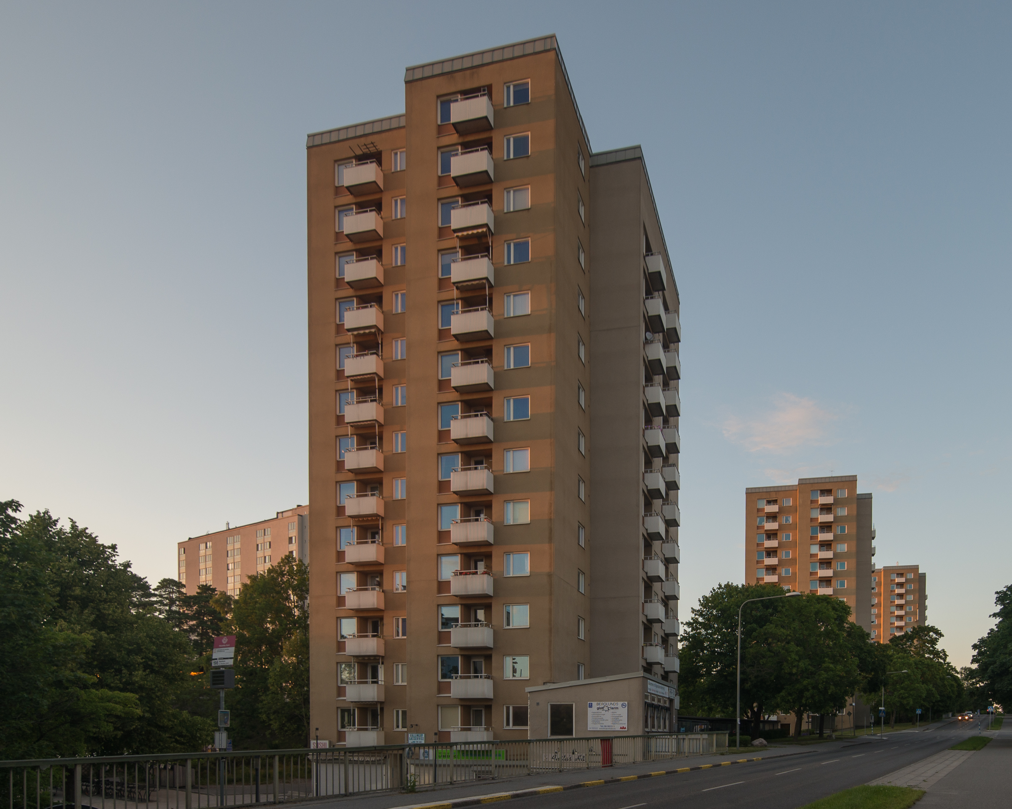 Buildings in Hässelby gård built 1954. Architect Jarl Bjurström.